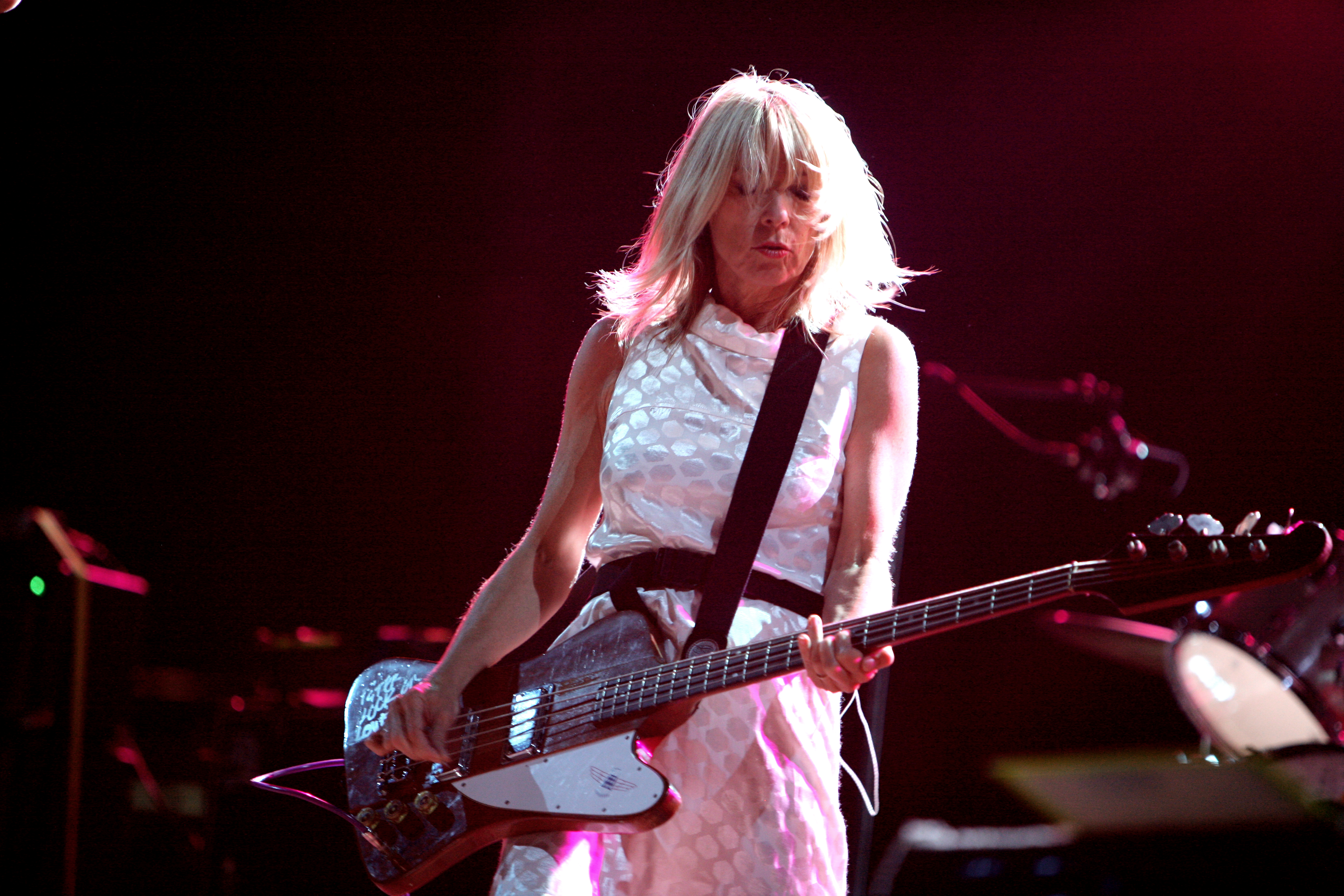 Kim Gordon (Sonic Youth) at Rock en Seine Route du Rock, August 2007